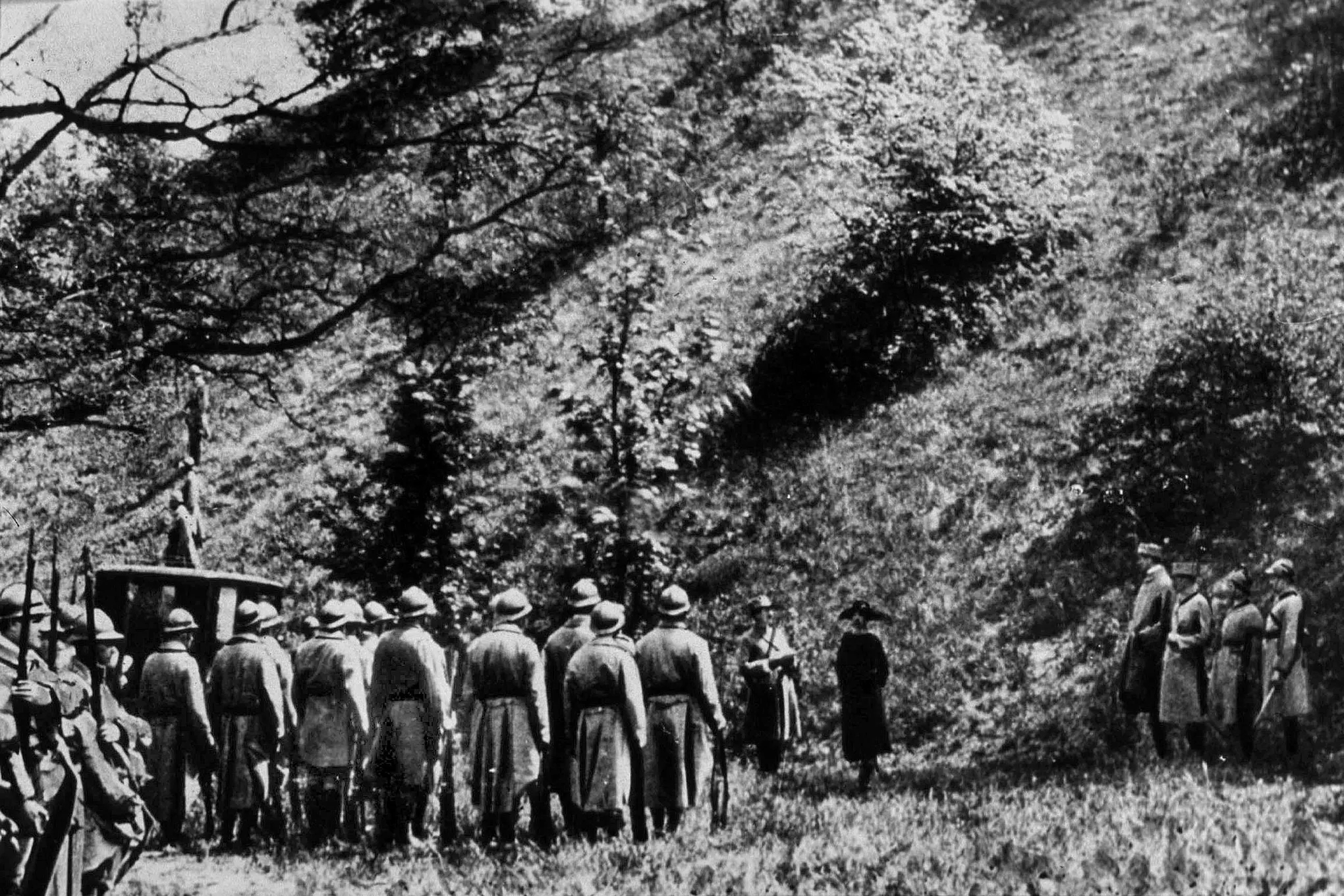 This image from a 1920 film portrays Mata Hari awaiting execution by firing squad.